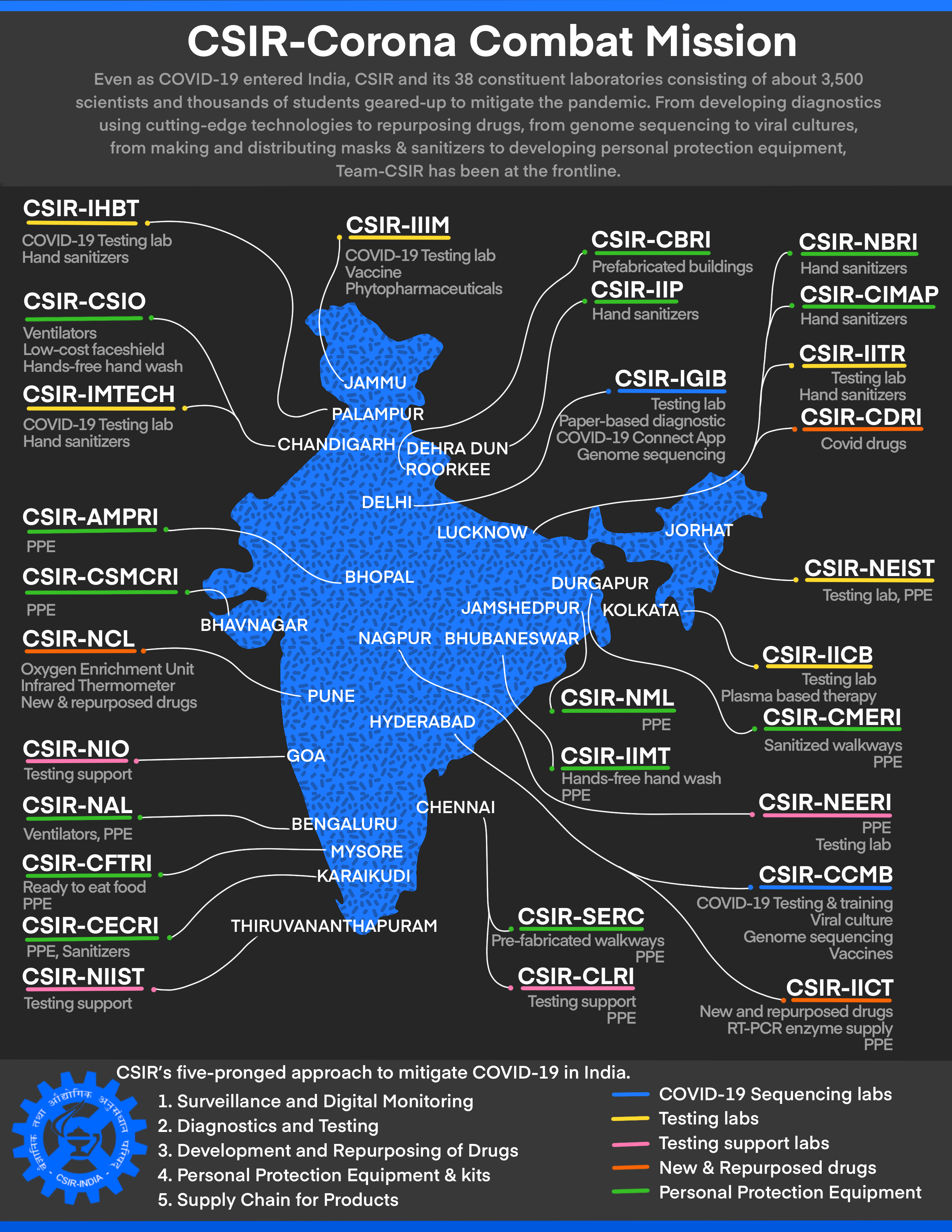 CSIR Corona Combat Mission : CSIR's programmes for COVID-19 prevention and management